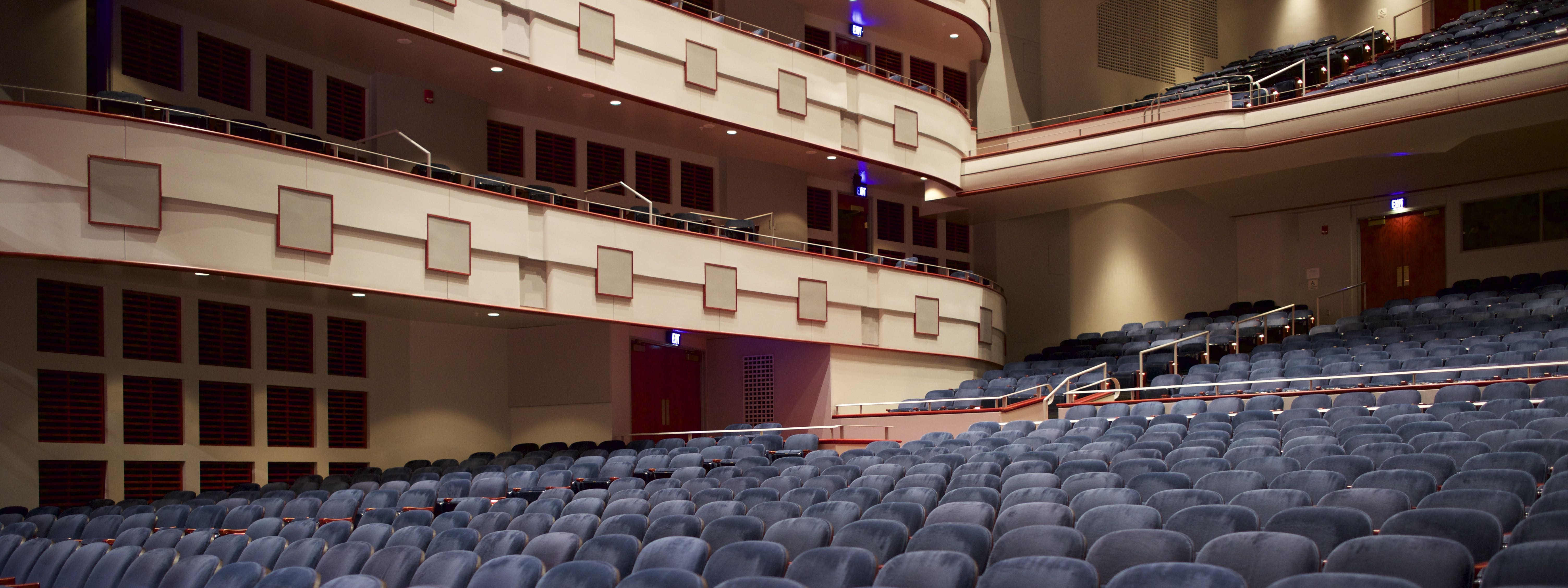 lied